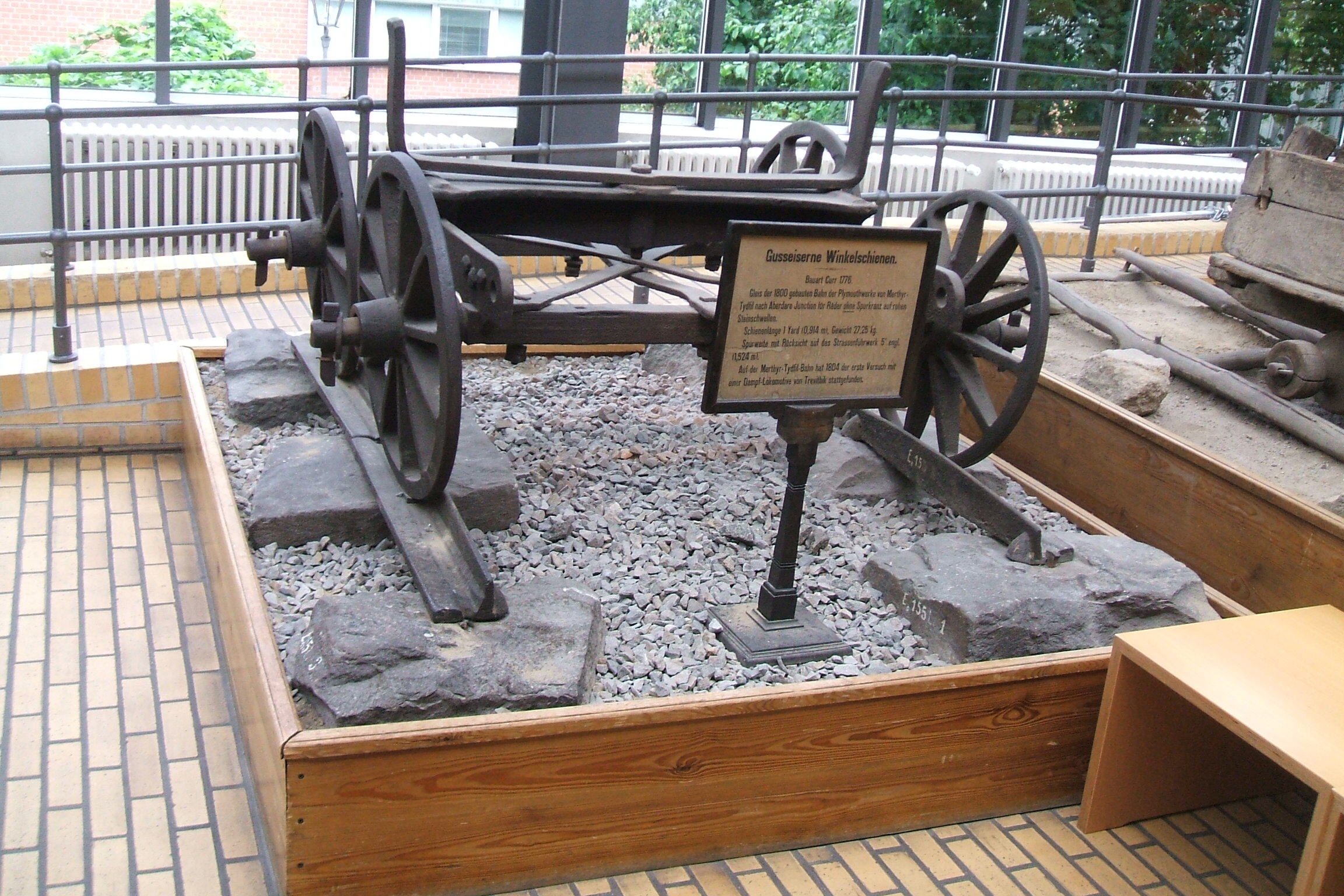 A section of L-shaped plate rails from a Welsh tramway in the Berlin Technical Museum, June 2007